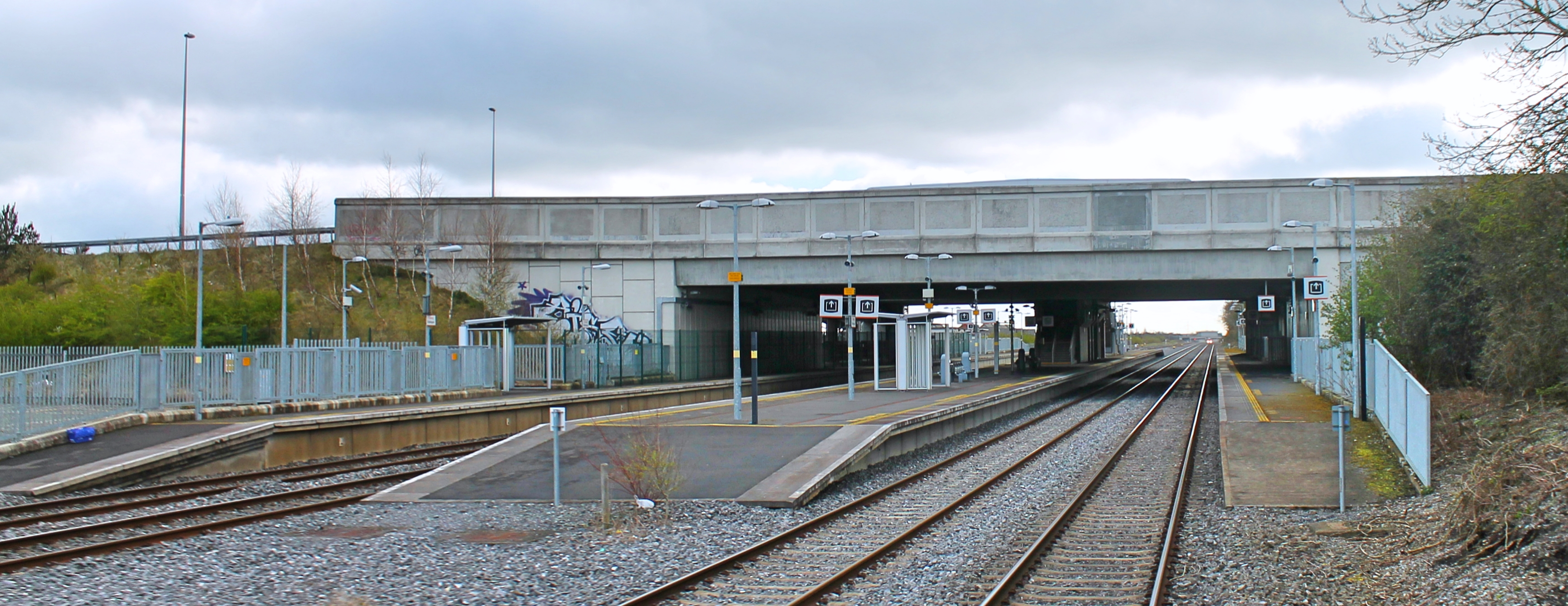 The as-of-yet unopened railway station at Kishoge, seen from a passing railtour.